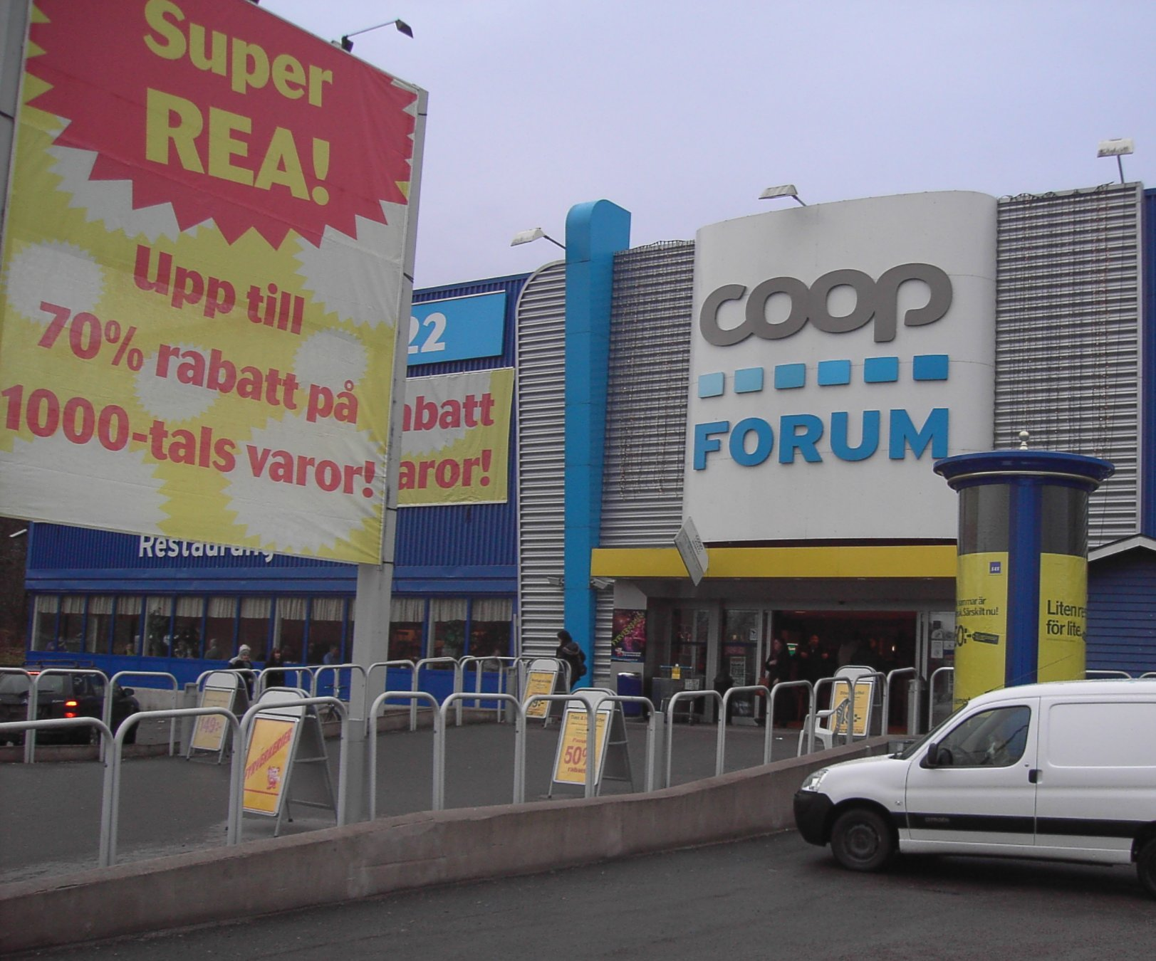 Coop Forum supermarket in Norrköping